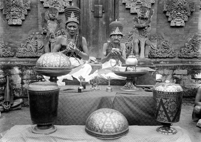 Male and female Balinese priests performing a ceremony